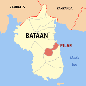 Map of Bataan showing the location of Pilar